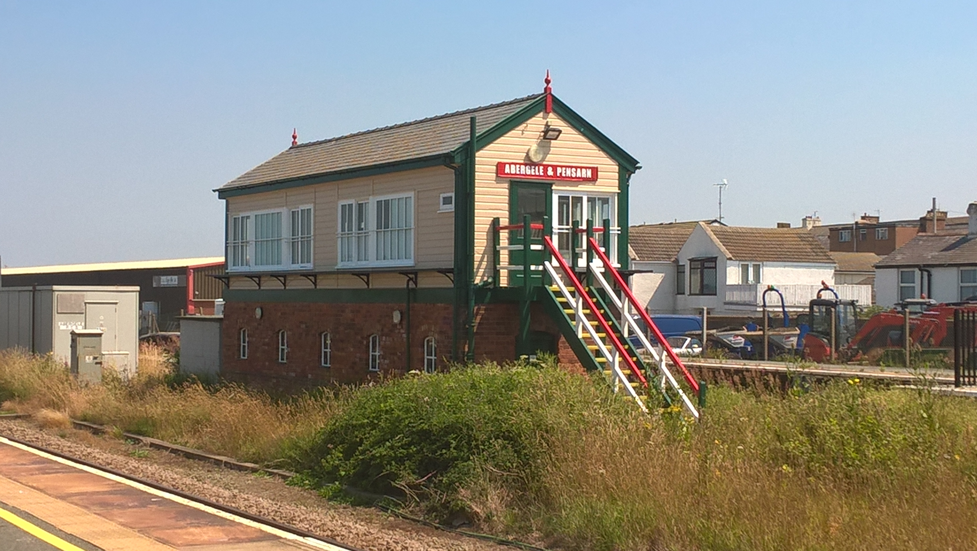 Abergele Signal Box - looks better with a lick of paint!